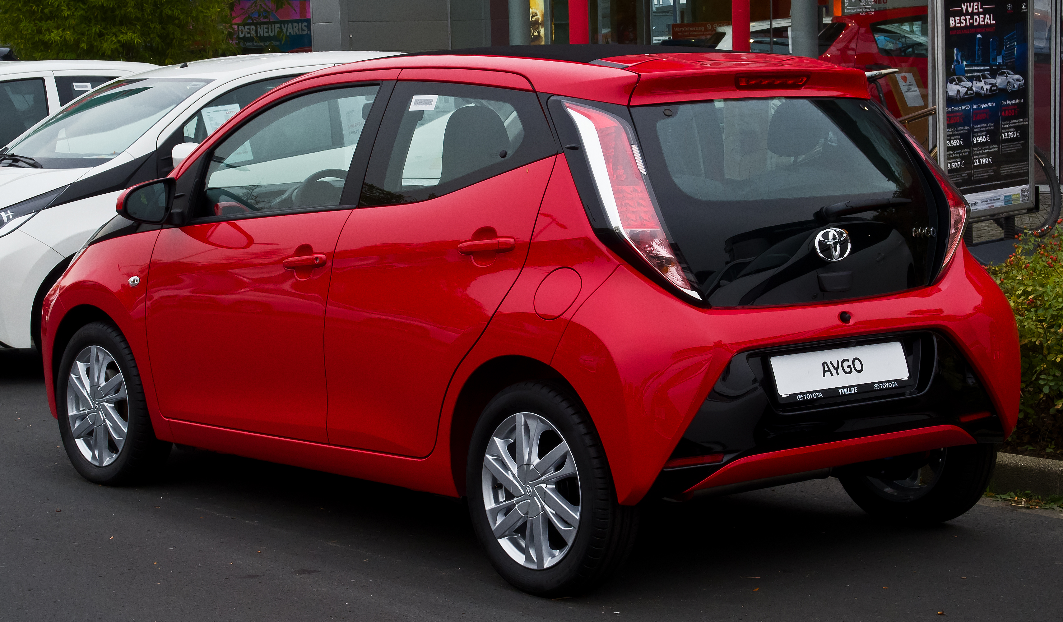 Toyota Aygo 1.0 VVT-i x-wave (II)